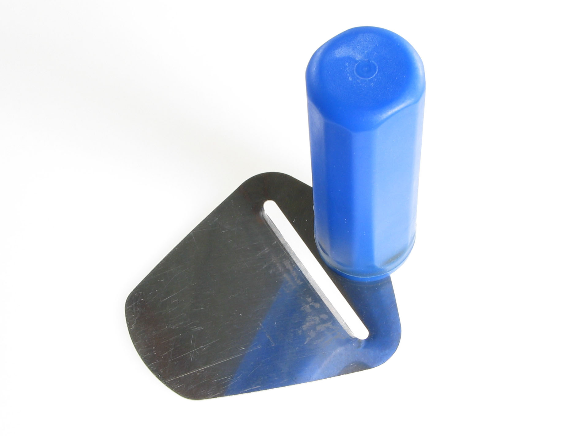 Osthyvel (cheese slicer), photo taken in Sweden